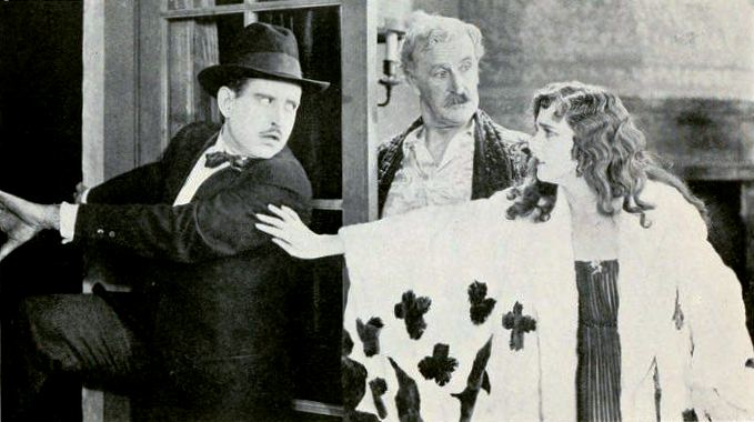 Still from the American film Forbidden Fruit (1921) with Clarence Burton, Theodore Roberts, Agnes Ayres (at right), on page 218 of Peter Milne, Motion Picture Directing; The Facts and Theories of the Newest Art (1922).